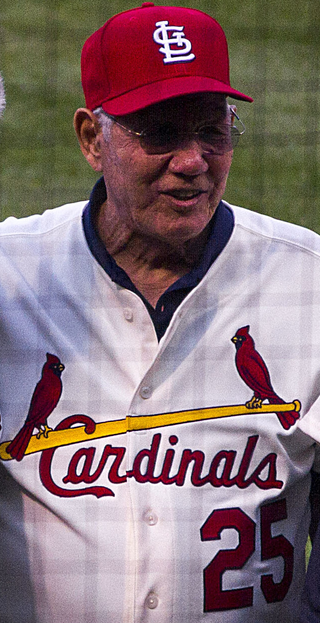 5-17-17 St.Louis Cardinals 1967 World Series Reunion.